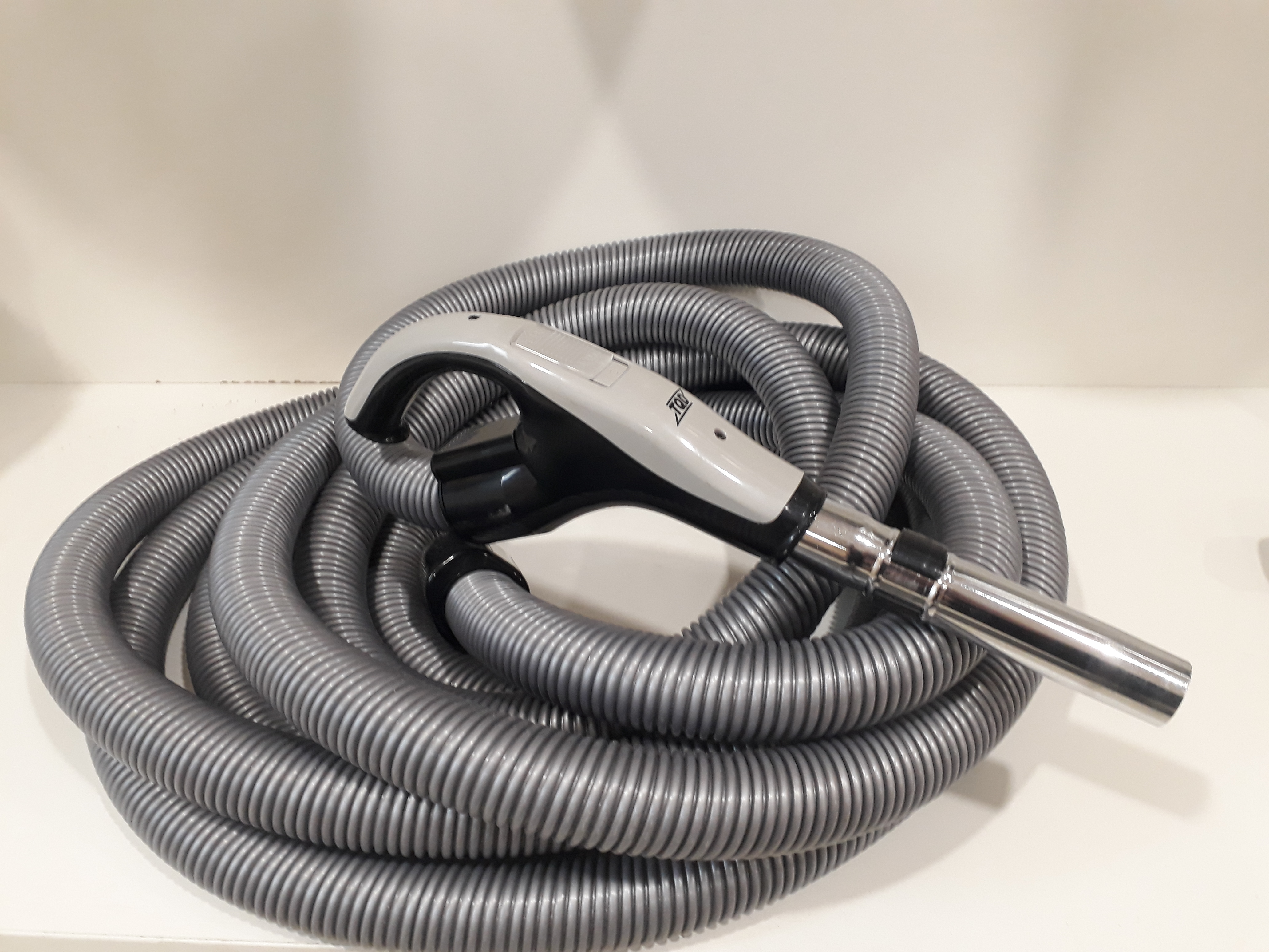 Central vacuum cleaner 9 meter long hose